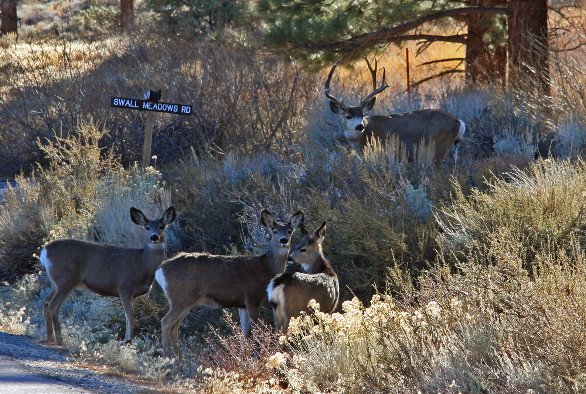 Mule deer (Odocoileus hemionus) of the Round Valley herd, foraging in the Swall Meadows community that constitutes a bottleneck along their annual migration between the high mountains in summer and the Round Valley area of Owens Valley west of Bishop in winter. Altitude 6800ft, in Swall Meadows, Mono County, California, USA.